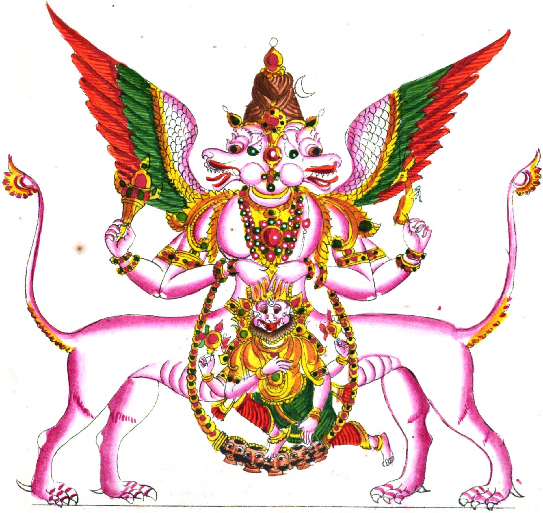 Sharabha